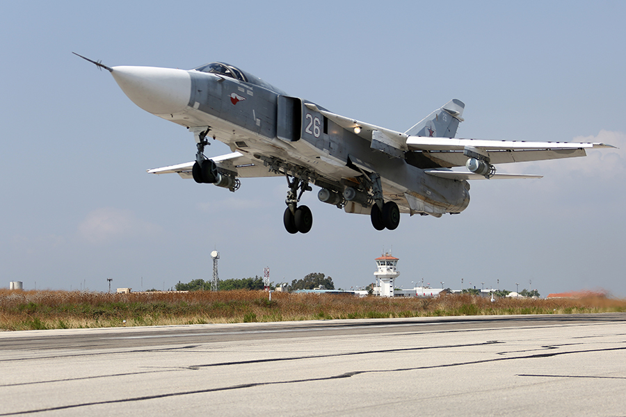 Russian Air Force Sukhoi Su-24 at Latakia Air Base